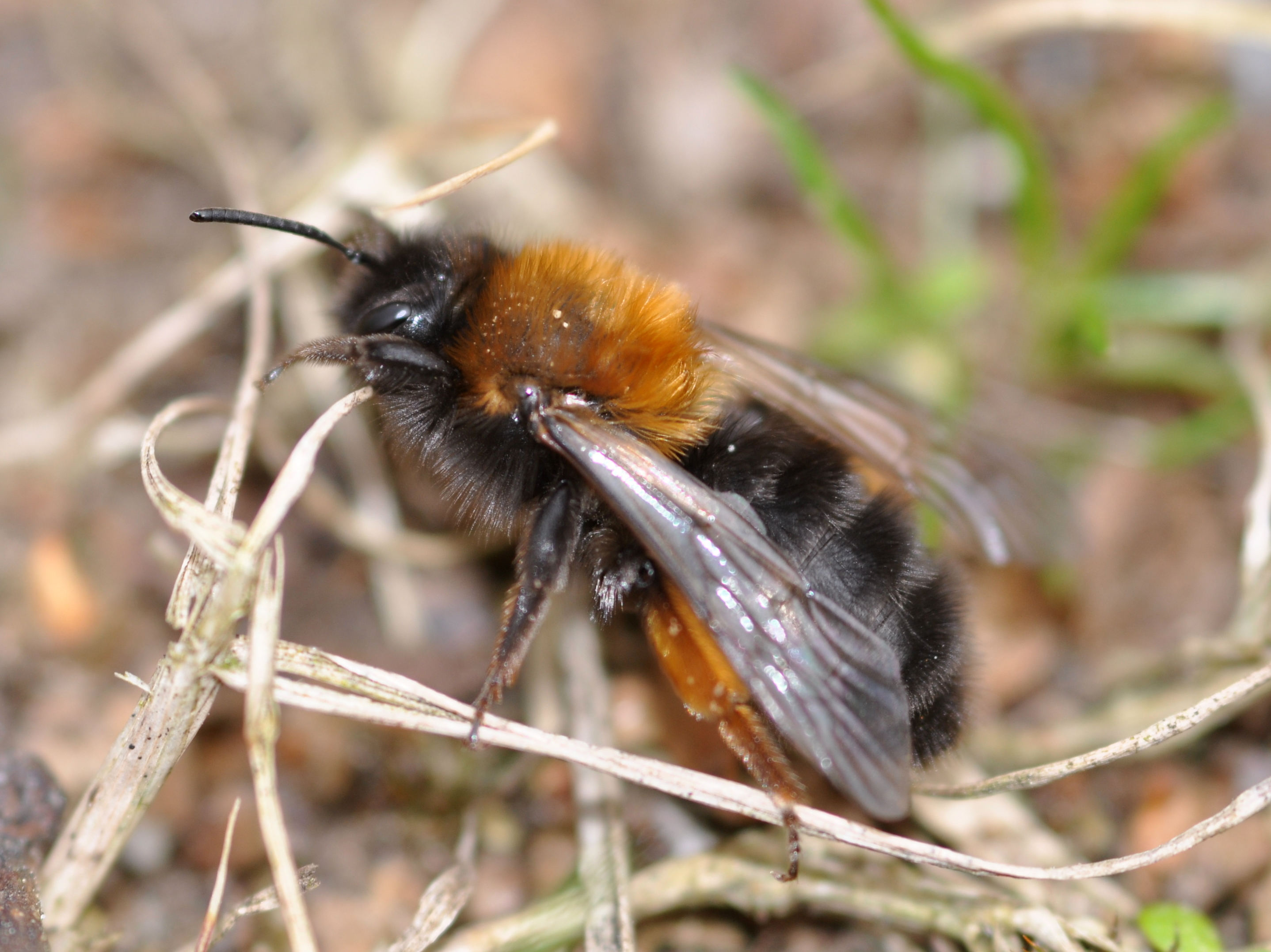 Andrena clarkella female in Bahrenfeld, Hamburg.